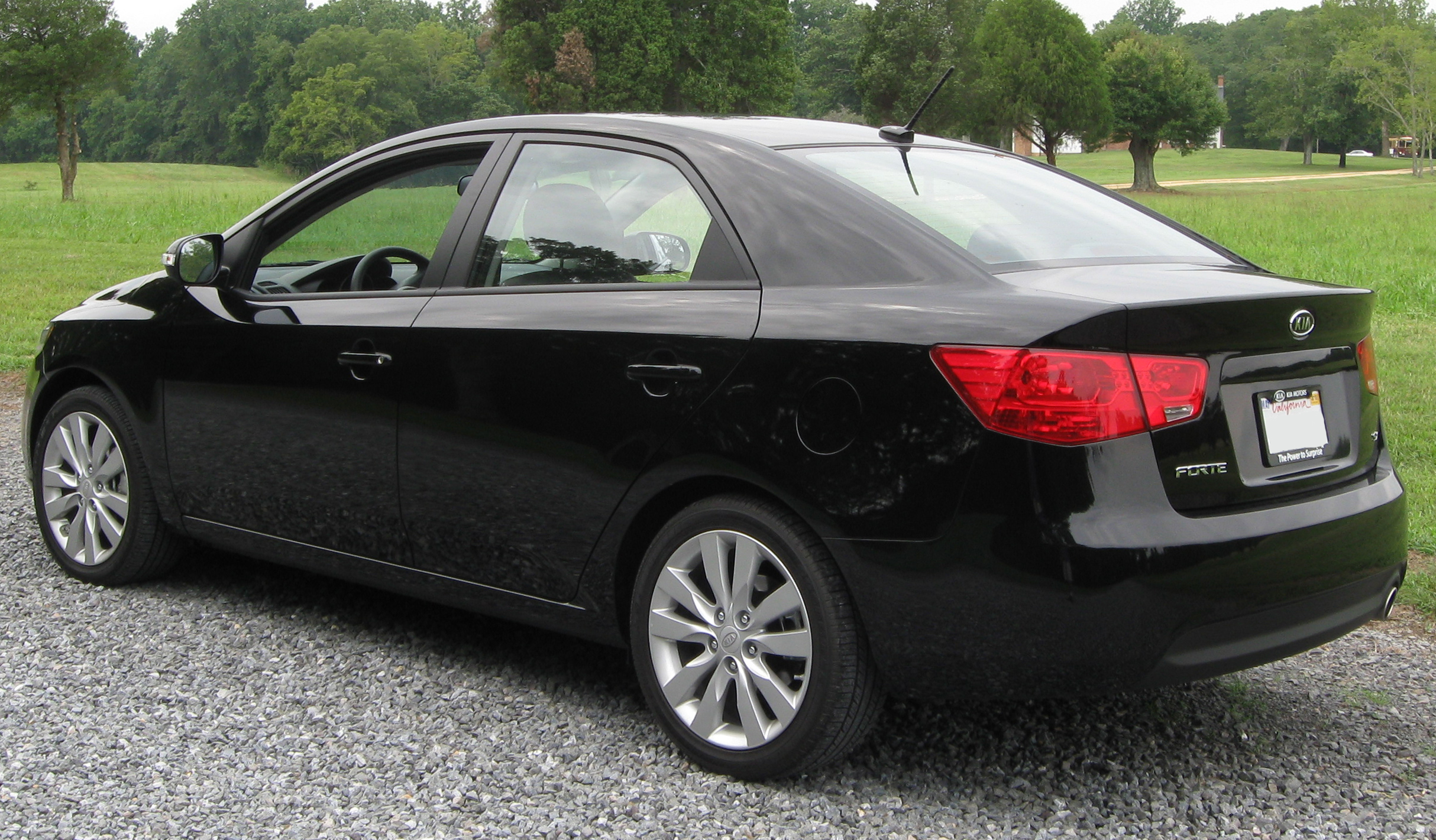 2010 Kia Forte SX photographed in Port Tobacco, Maryland, USA.